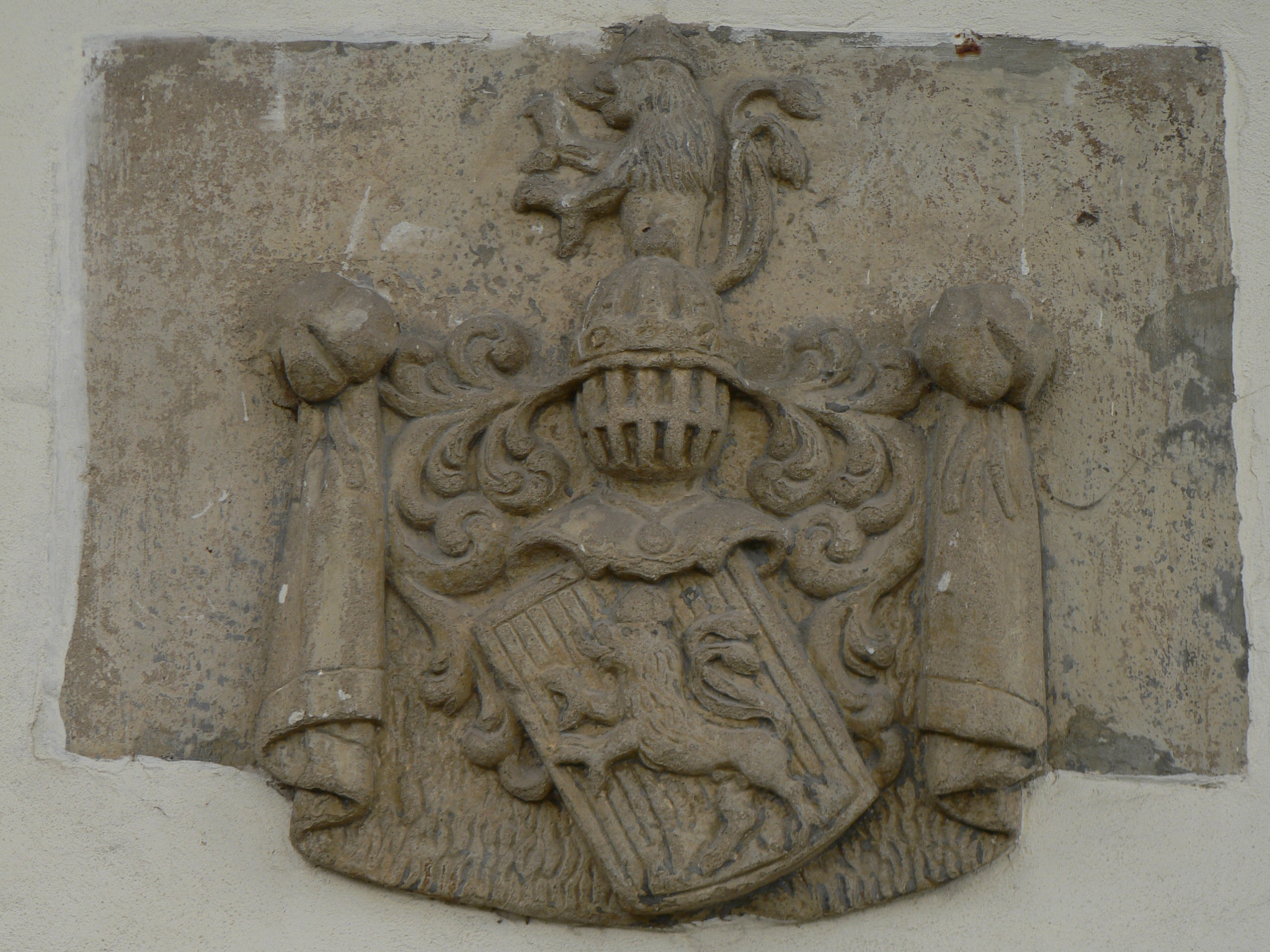 Bludov, Šumperk District, Czechia.